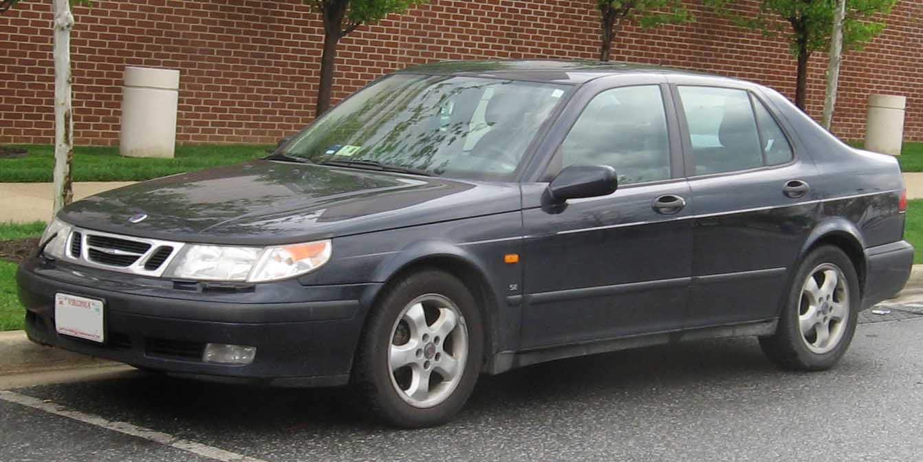 1999-2001 Saab 9-5 photographed in College Park, Maryland, USA.